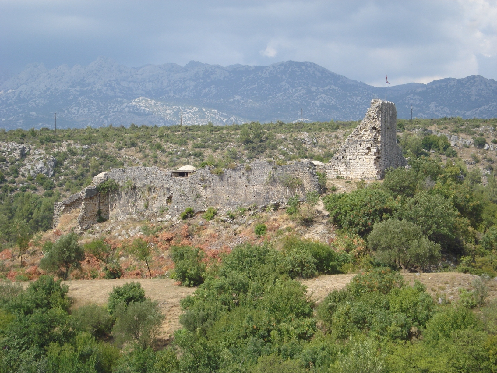 Ruins of Fortica castle in Obrovac (Croatia) - south viewHrvatski: Ruševine utvrde Fortica u Obrovcu (Hrvatska) - pogled s juga